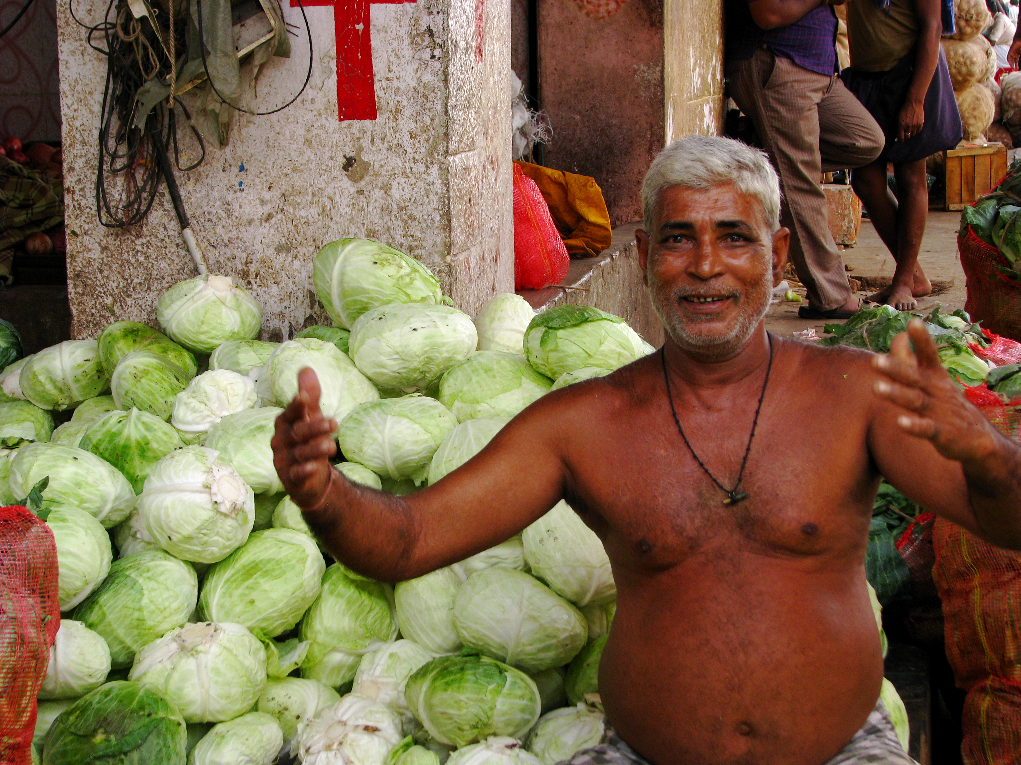 This cabbage vendor was so excited and exuberant about being photographed. He was very proud of his little shop.